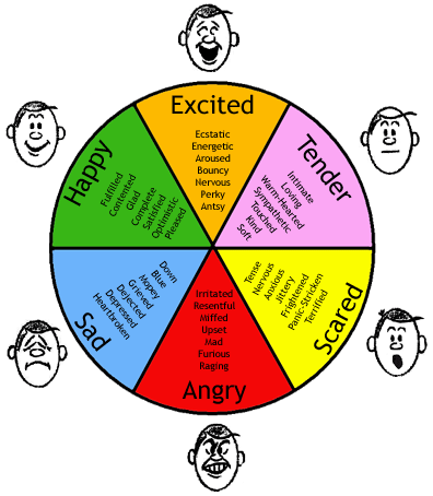 Managing emotions - Identifying feelings